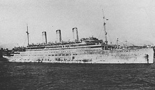 The Justicia painted grey for wartime service.